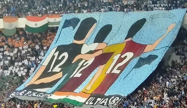 Tifo of Blue Pilgrim displaying united Mohammedan, Mohun Bagan and East Bengal fans as the 12th man of India national football team to support the team during the 2022 WorldCup qualifying match against Bangladesh on 15 October 2019.